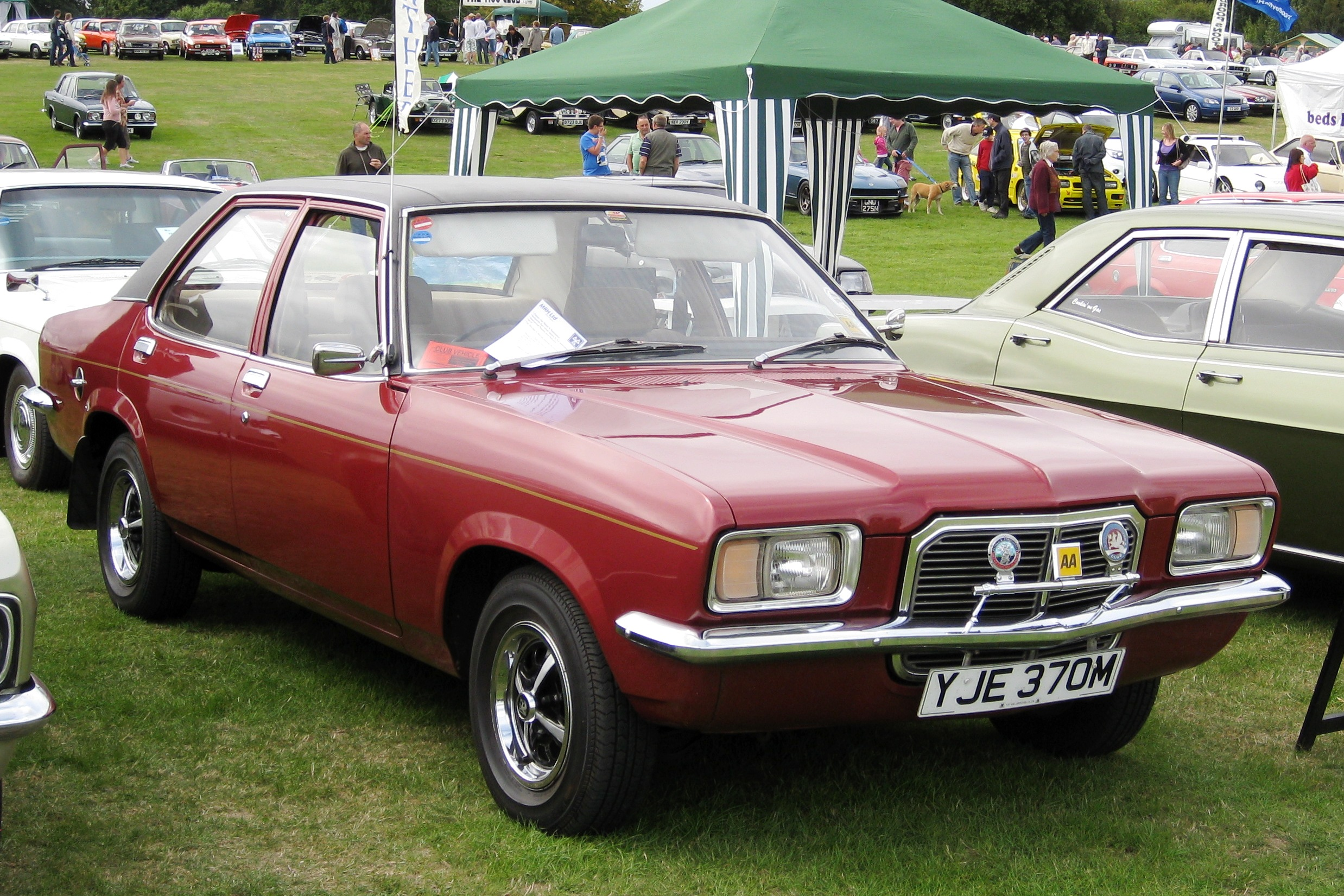 Vauxhall Victor FE 1800